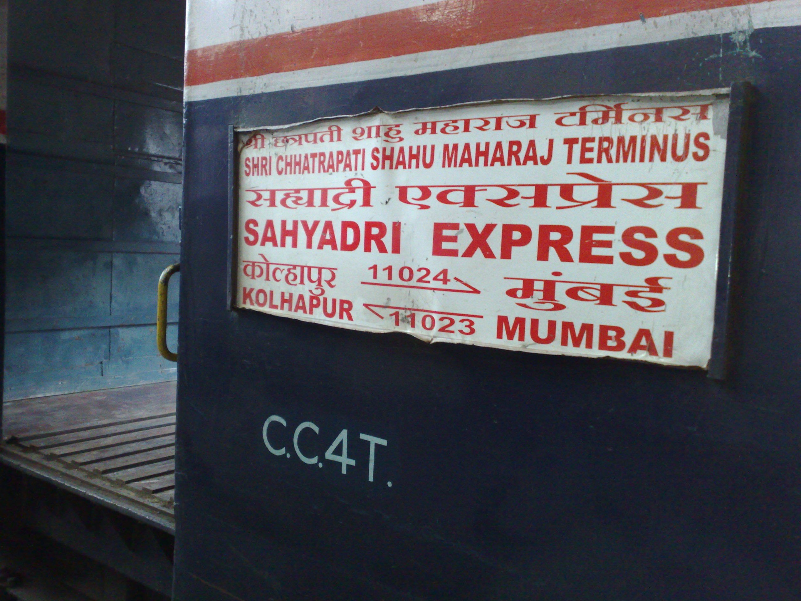 11023 Sahyadri Express trainboard